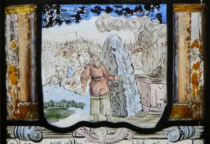 A stained-glass window (German, 1728) at Pena Palace, in Sintra, Portugal. It includes a depiction of the Israelites defeating the Philistines, after Samuel has offered a sacrifice at Eben-Ezer (1 Samuel 7:2-14).